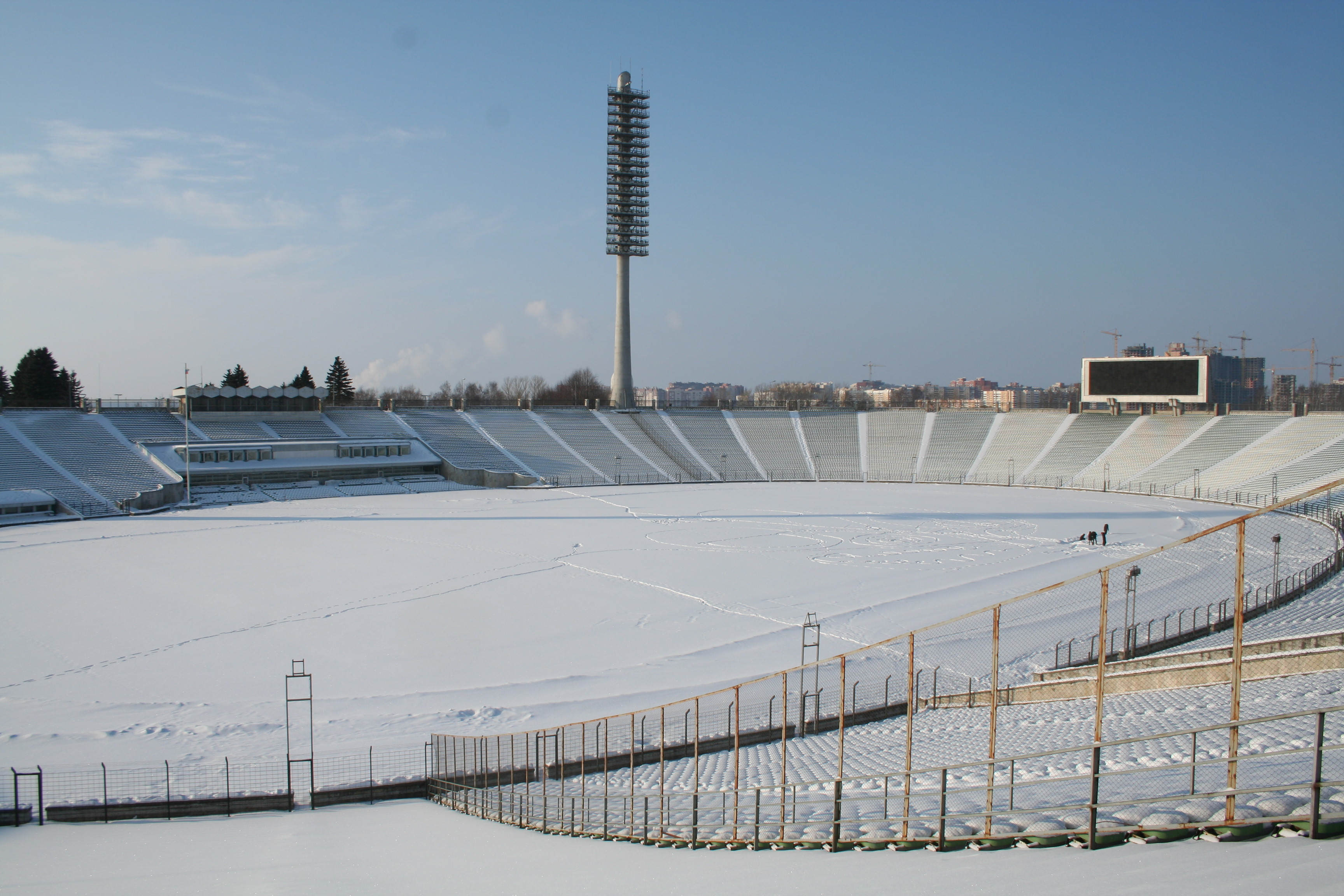 Kirov Stadium in St.Petersburg, Russia.